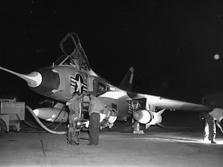 CALEB launch vehicle mounted aboard a F4D Skyray.